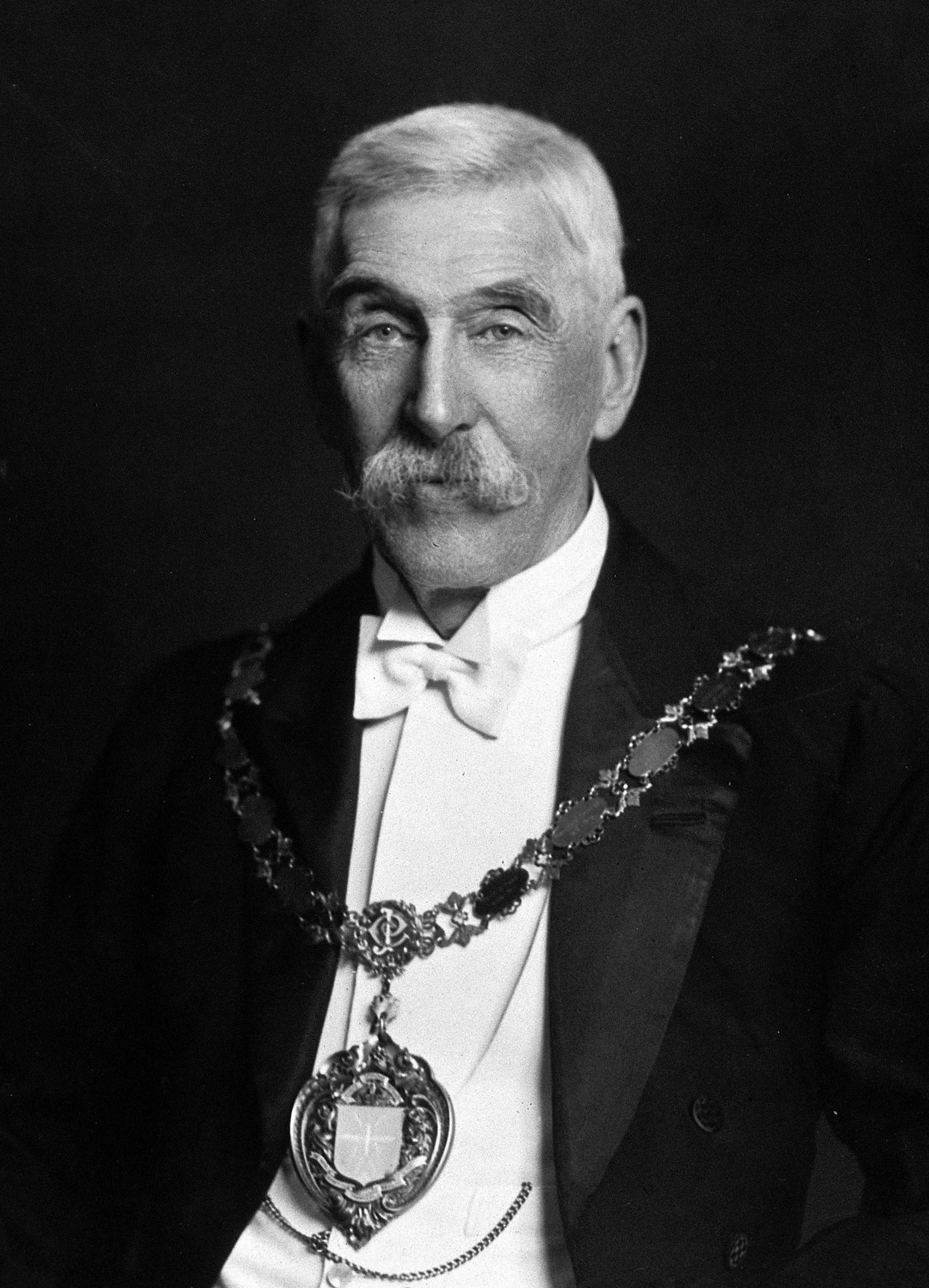 Sir Leonard Rogers, wearing the insignia of the Knight Commander of the Order of the Star of India